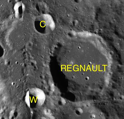 Part of the chart LAC-21 used for the presentation